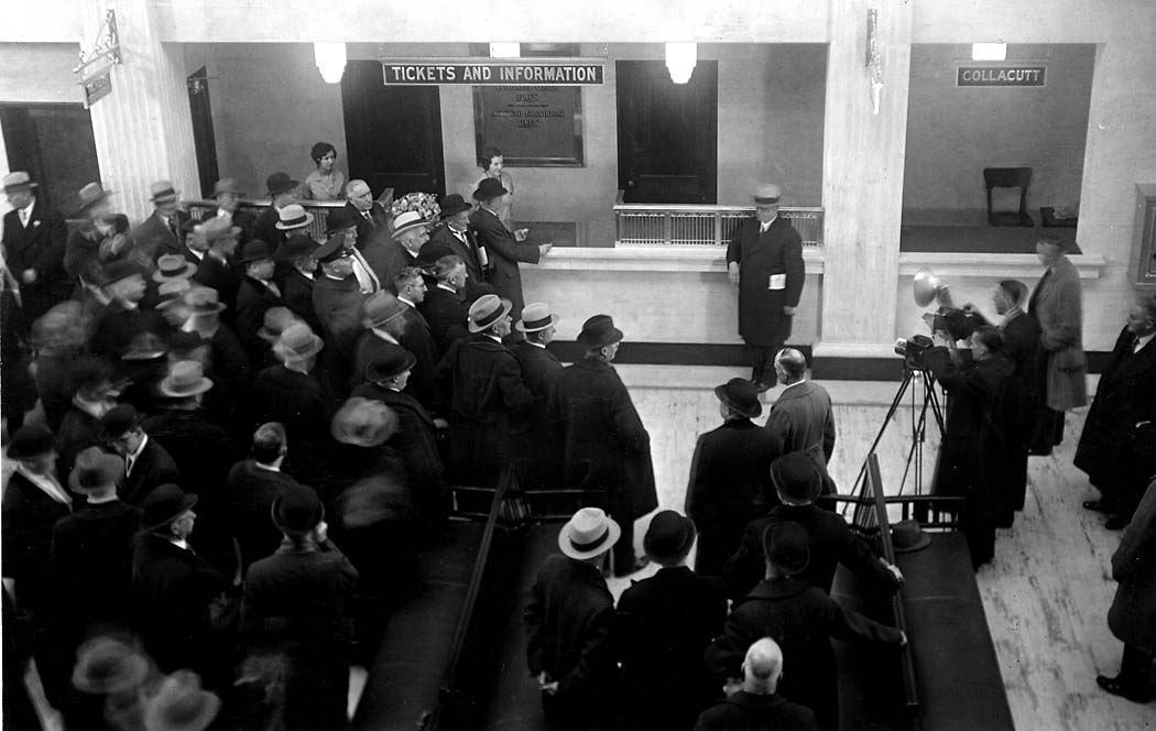 Mayor William James Stewart purchasing first ticket issued at opening of Bay St motor coach terminal.